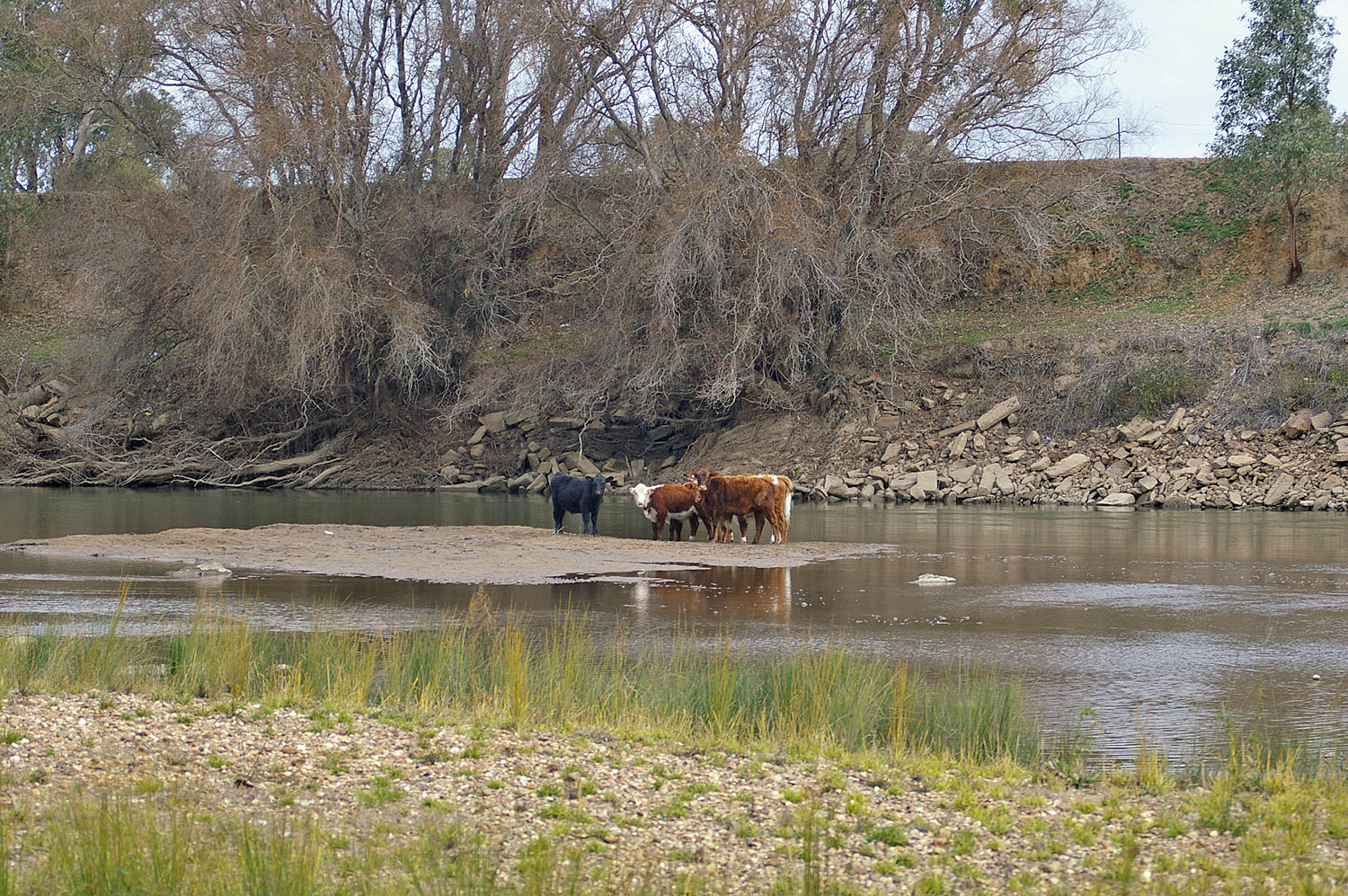 Cows on a sand island in the Murrumbidgee River near Wagga Wagga, New South Wales.